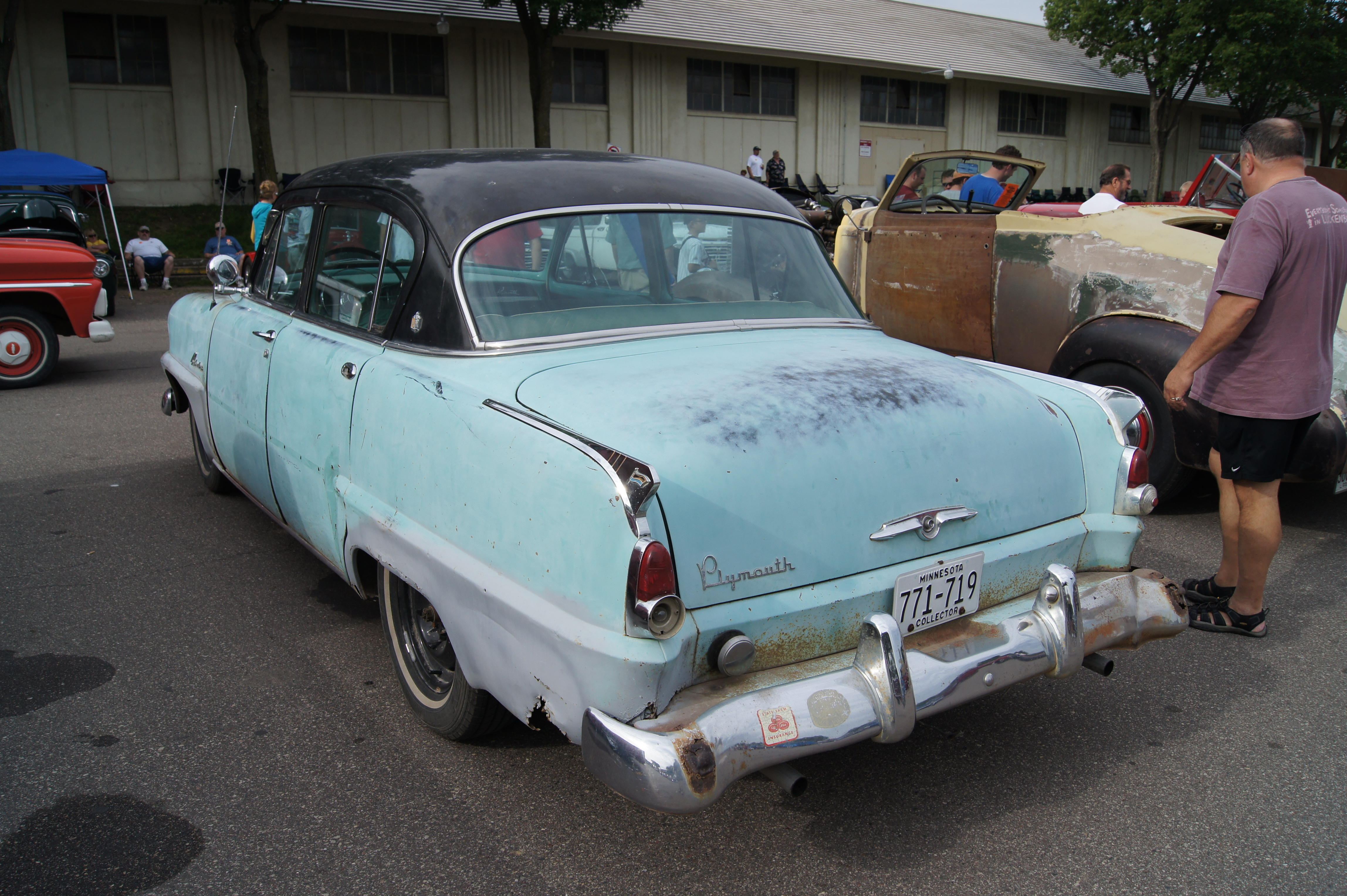 Minnesota Street Rod Association "Back to the Fifties" June 2012 Minnesota State Fairgrounds St. Paul MN